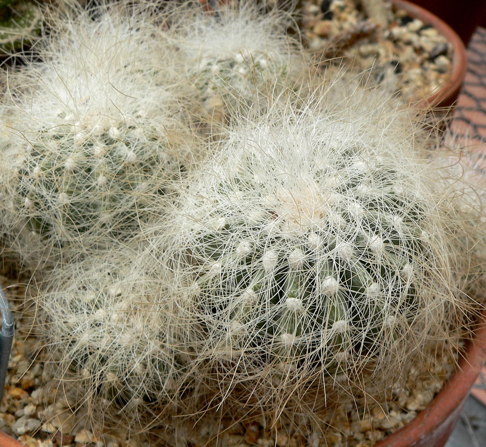 Photo of Copiapoa krainziana at the University of California Botanical Garden